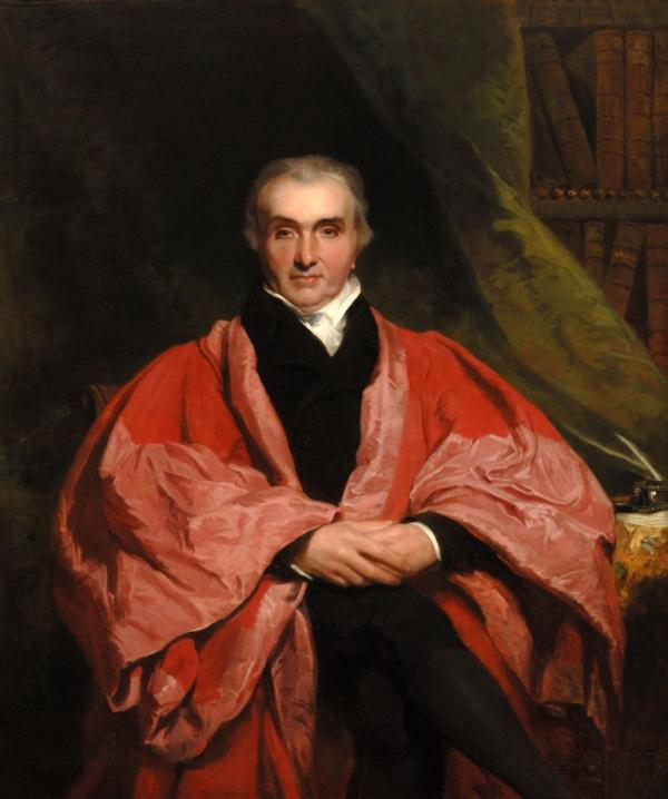 Portrait of Matthew Baillie by William Owen.